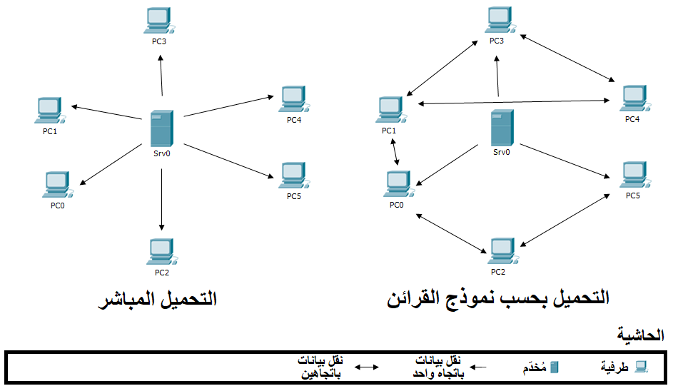 a comparison between the direct download process and the peer-2-peer download process.